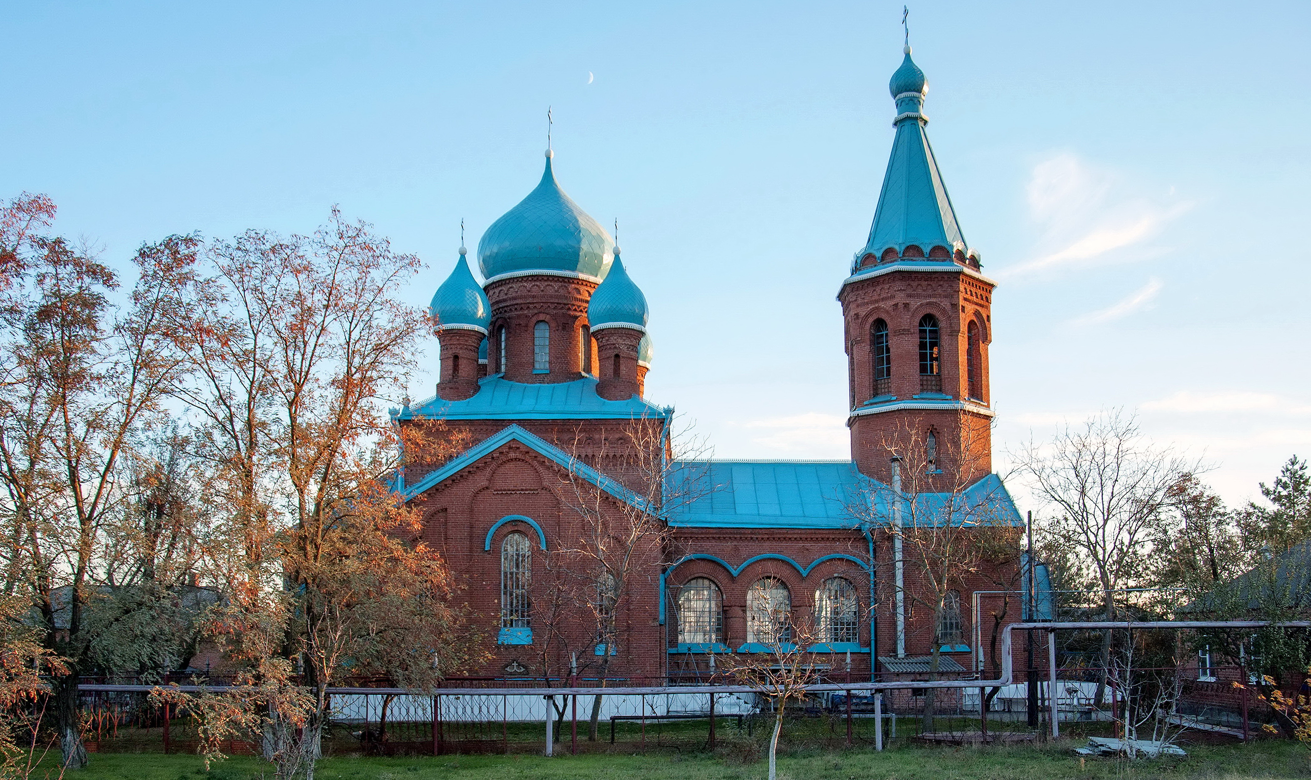 Church of the Assumption, 1914, architect SI Vasiliev, Rostov region, Myasnikovsky District, Farm Nedvigovka, Russia